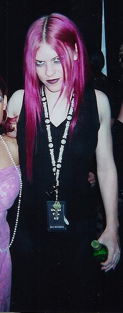 At the Culture Room in Ft Lauderdale